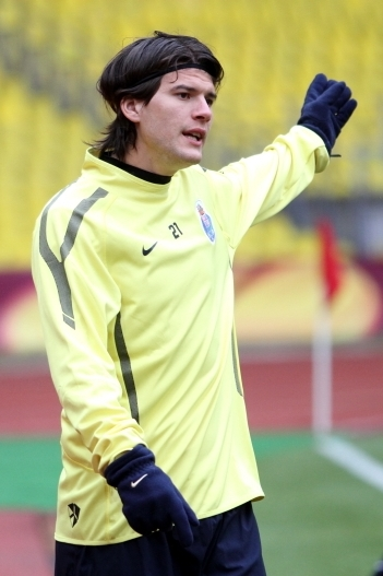 Romanian football player Cristian Săpunaru during training of FC Porto